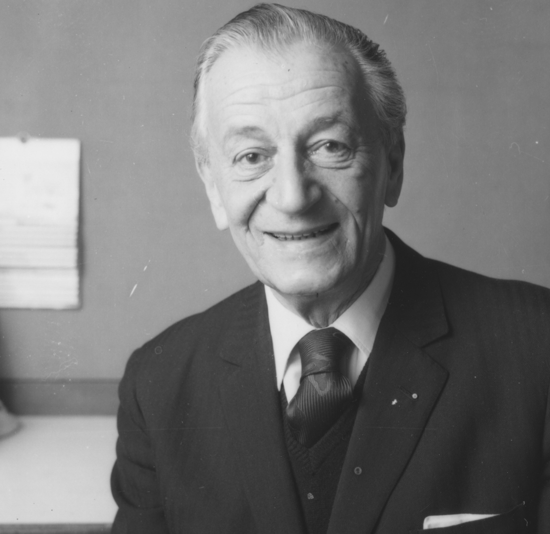 Professor of International Law 'When he was born in Split in 1909, the Dalmatian city was part of Austria-Hungary. In 1933 he graduated Doctor of Law at the University of Zagreb at the same time completing his studies in music at the Academy of Music. Legal practice followed. From 1942 Ivo Lapenna worked for the Resistance Forces until the end of the war. Thereafter he became professor of International Law and International Relations at Zagreb University until 1949, participating at the Peace Conference in Paris and for a time acting as council-advocate before the International Court of Justice at The Hague. In 1949, Ivo and his wife left Yugoslavia for France and came to London in 1951. From 1955 he has been at the School and from 1964 has held a position jointly with the School of Slavonic and East European Studies...' LSE Magazine, June 1977, No53, p.14 IMAGELIBRARY/716 Persistent URL